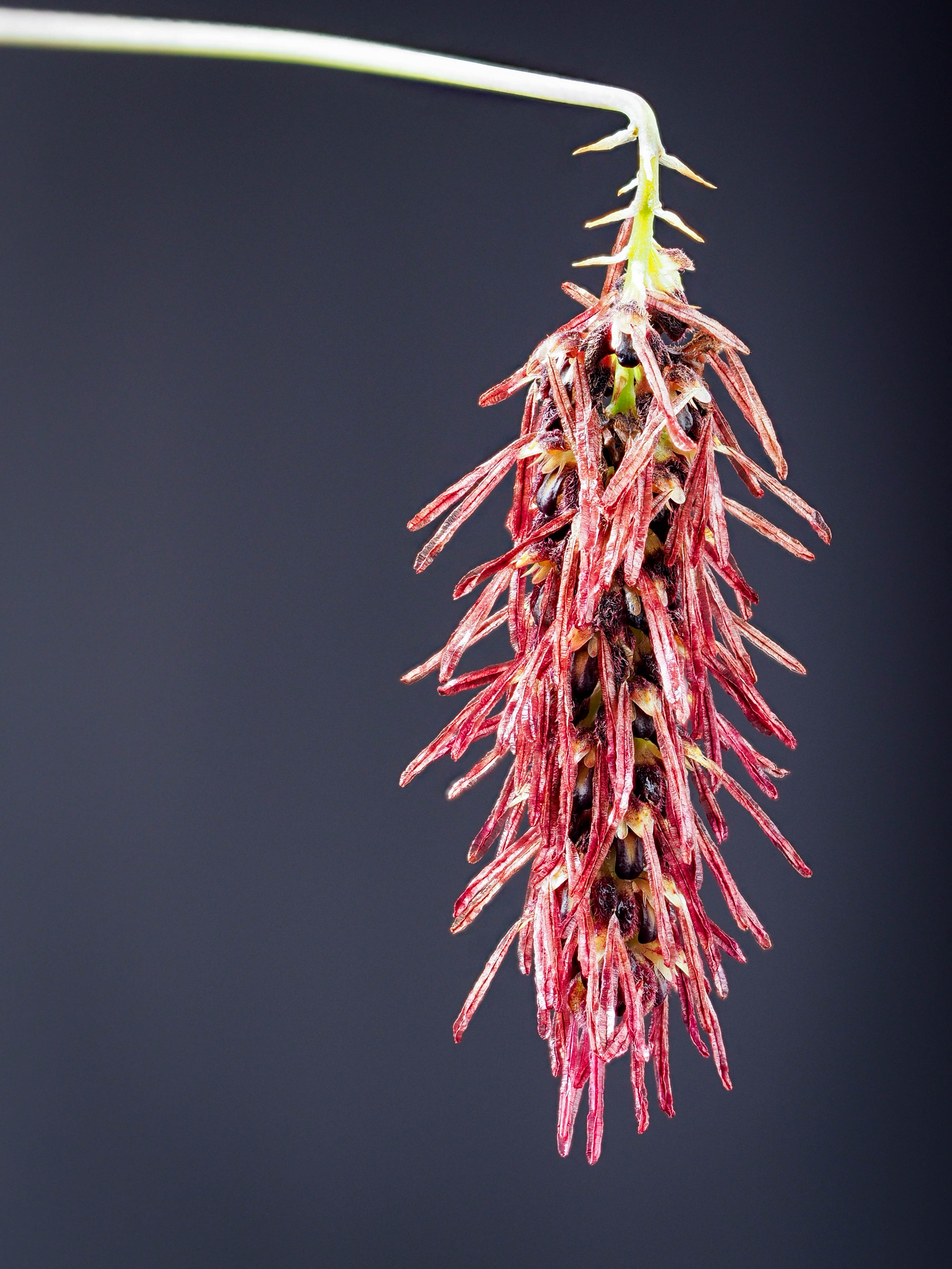 Flowers are fully open. The flower lasts for a long time (more than 1 month). From Tropical Exotique. E-M1 in-camera focus stacking with focus differential of 2.